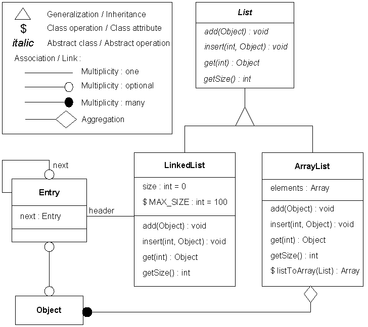 An OMT object diagram, a part of Java Collections-like framework.